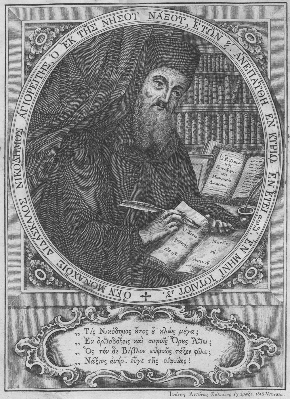 Saint Nicodemus the Hagiorita, Venezia 1818